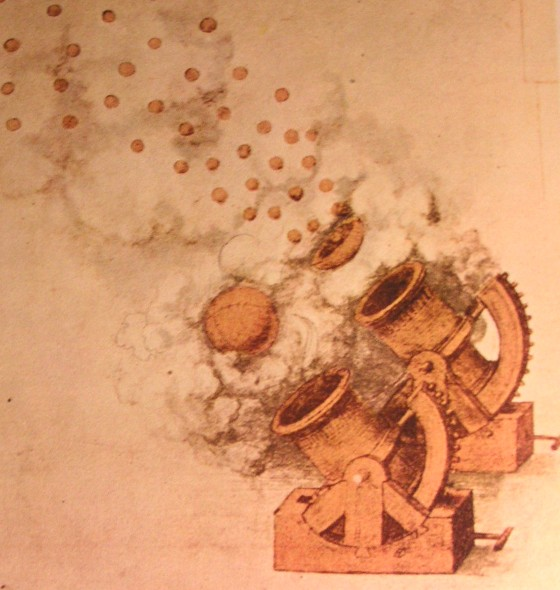 Drawing of Cannons